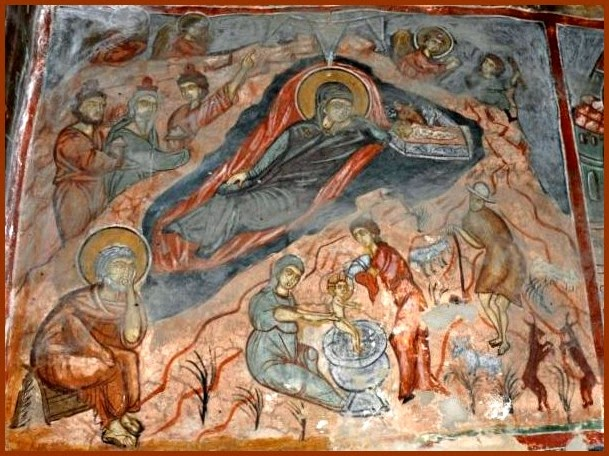 Nativity Eleoussa Prespa Church Fresco